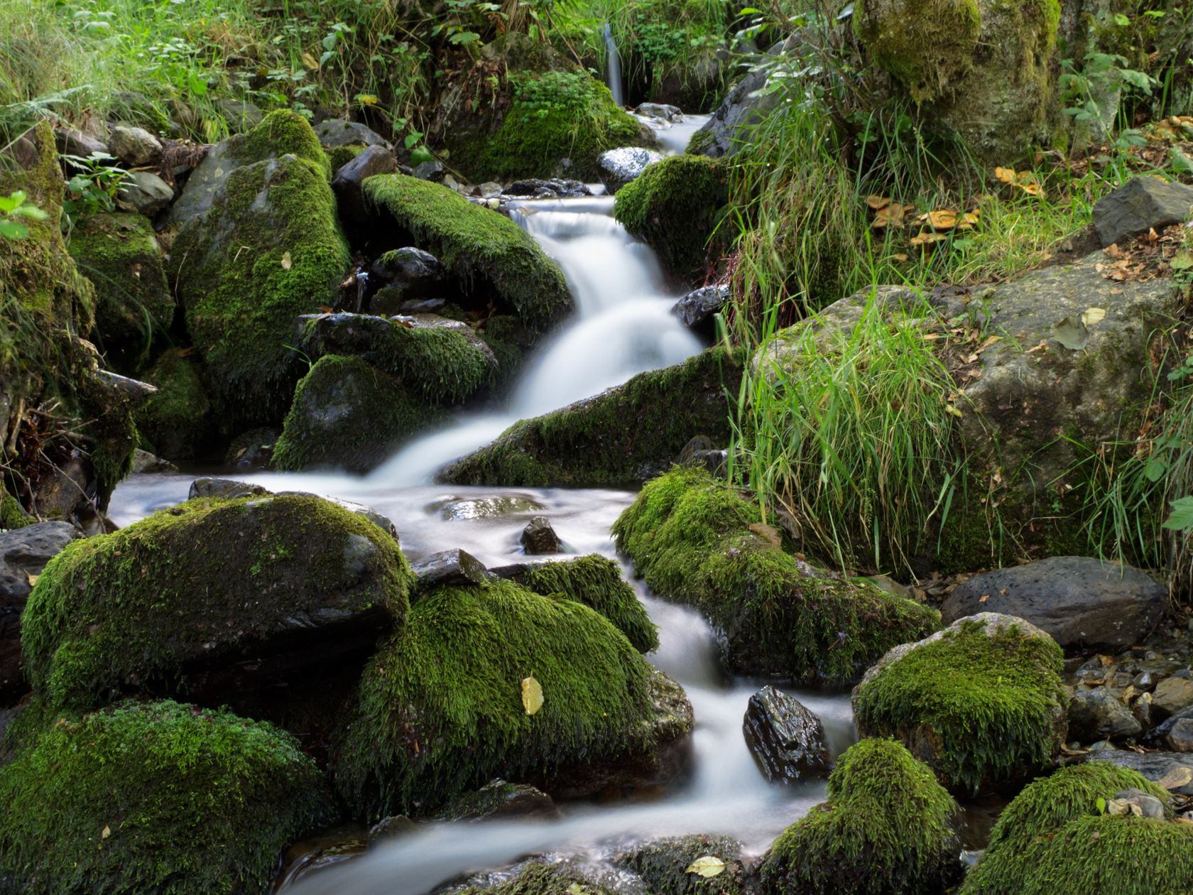 An example of the use of a Neutral Density filter.